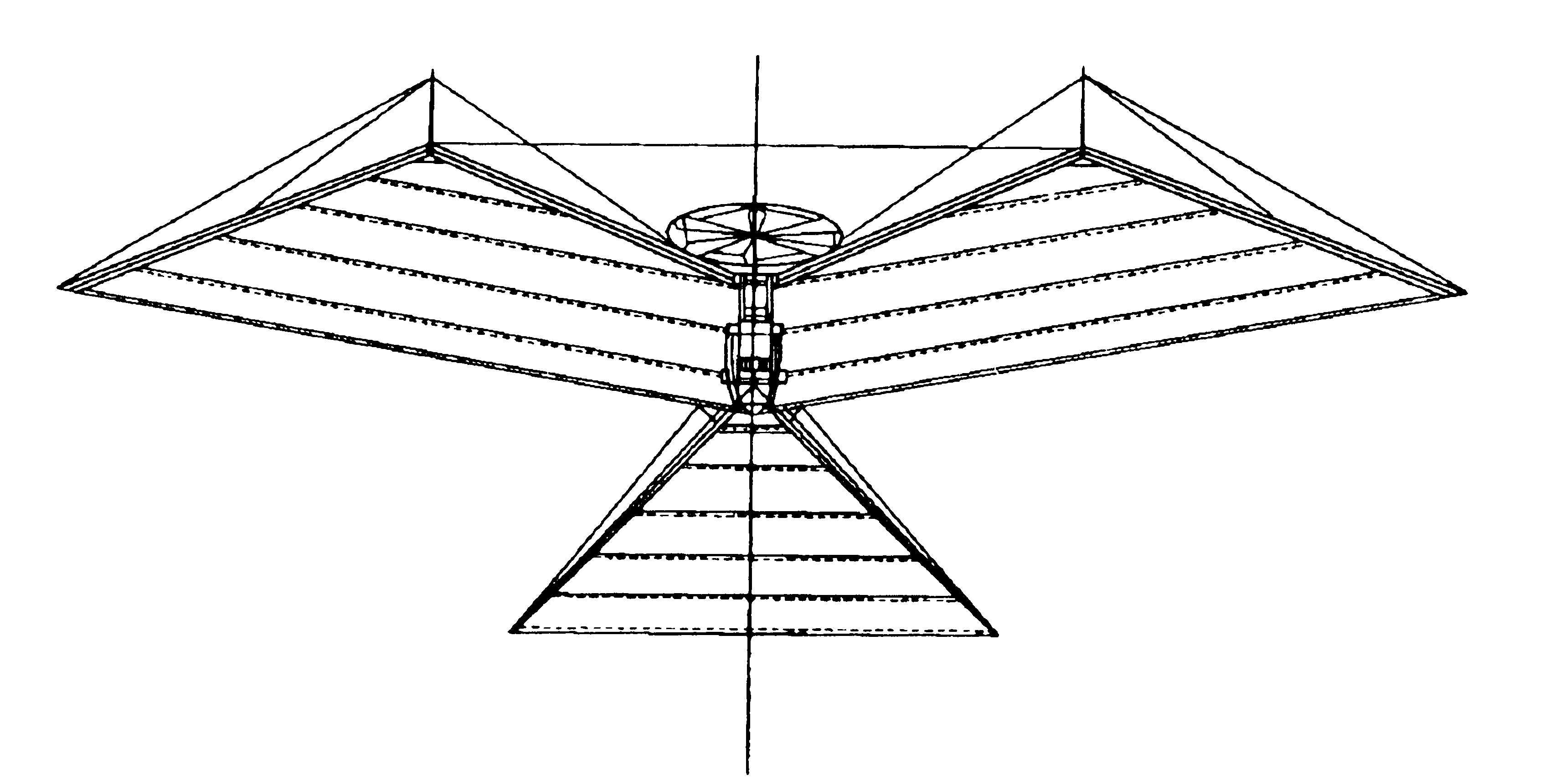 Plan view of the Du Temple monoplane, published in the Cosmos les Mondes magazine in 1885.